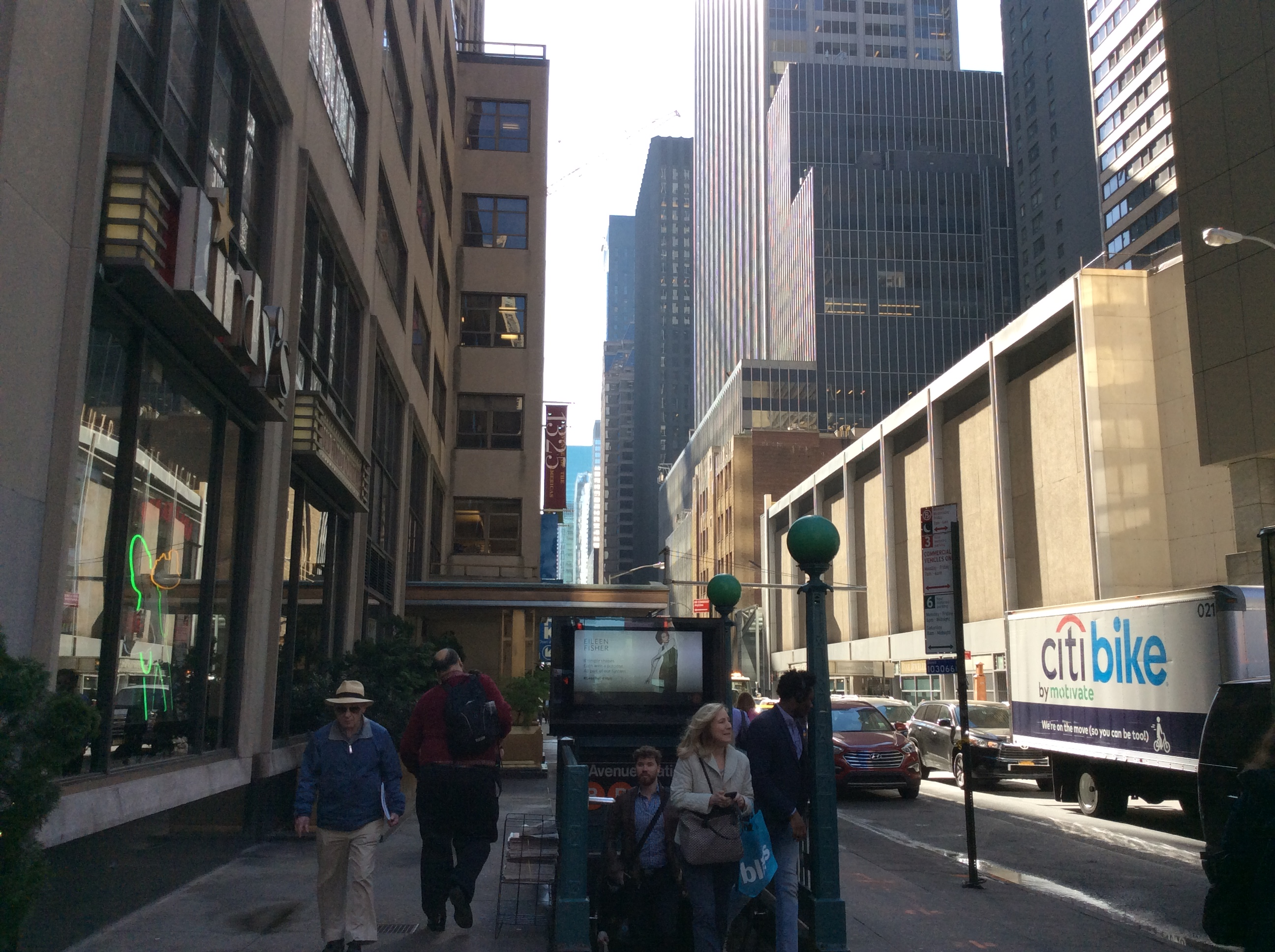 Subway entrance at the intersection of 7 Avenue and 53 Street in Manhattan, seen in April 2017